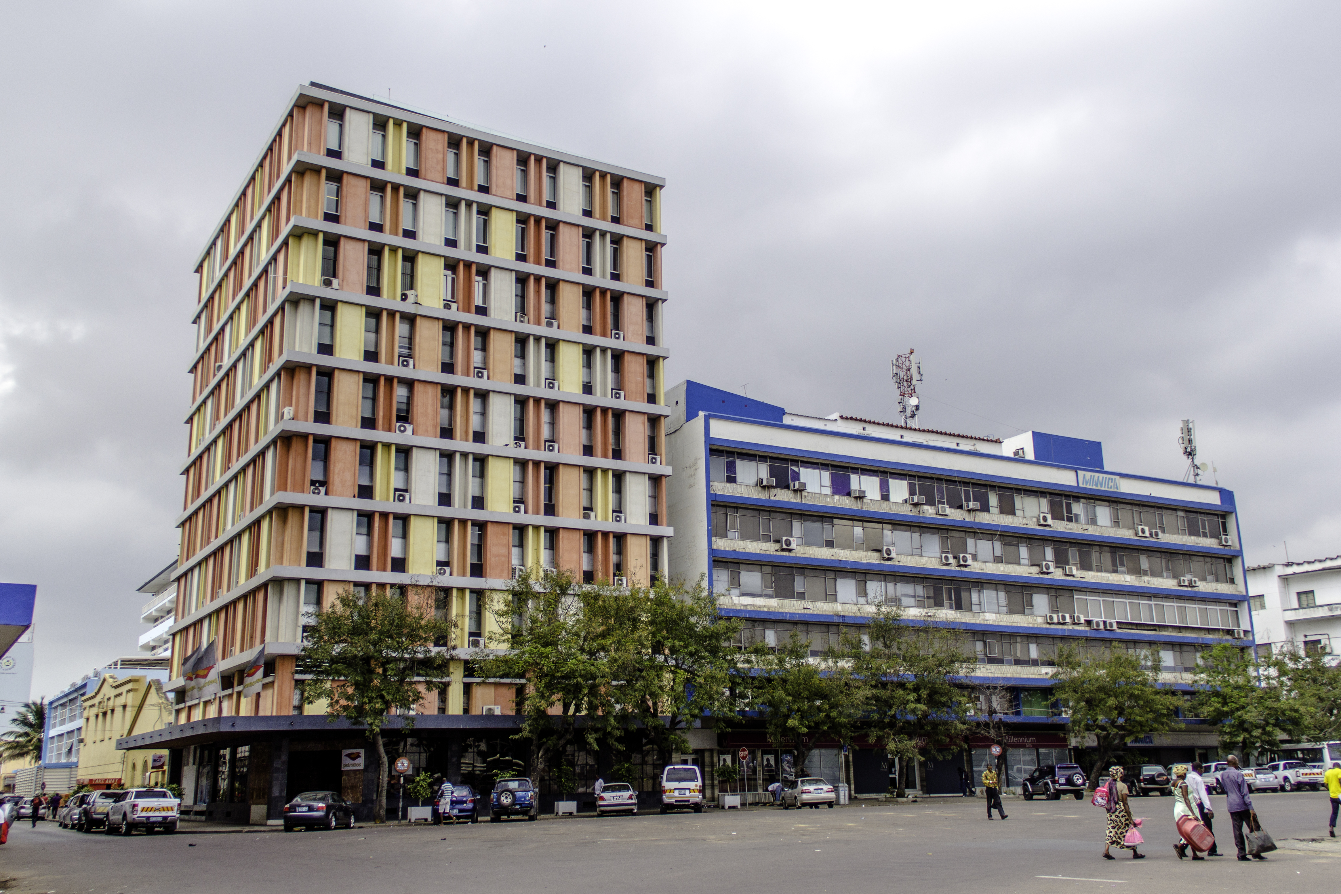 Spence & Lemos building in Maputo, Mozambique